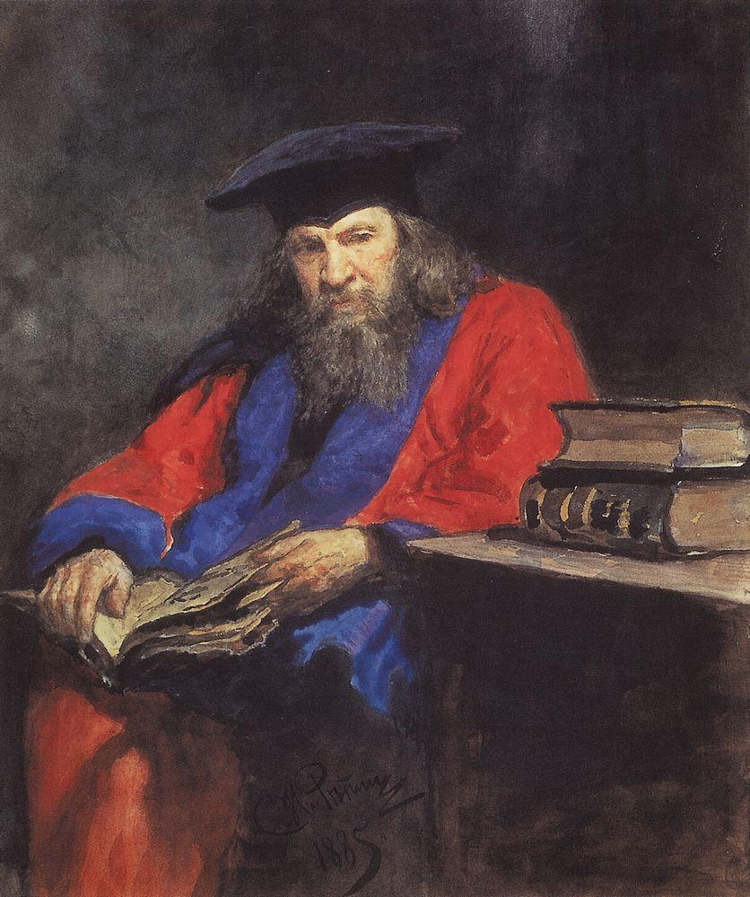 Portrait of Dmitry Ivanovich Mendeleev wearing the Edinburgh University professor robe. Watercolour on paper. 57.5 × 46 cm. The State Tretyakov Gallery, Moscow.